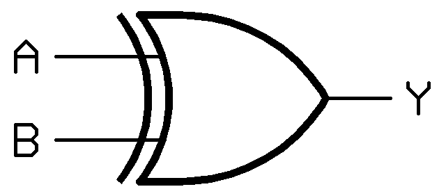 Schematic symbol for a XOR-gate according to ANSI/IEEE Std 91-1984 and ANSI/IEEE Std 91a-1991.